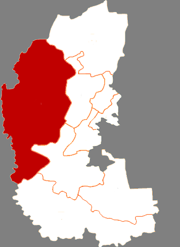 Location of Dorbod Mongol Autonomous County in Daqing City, China